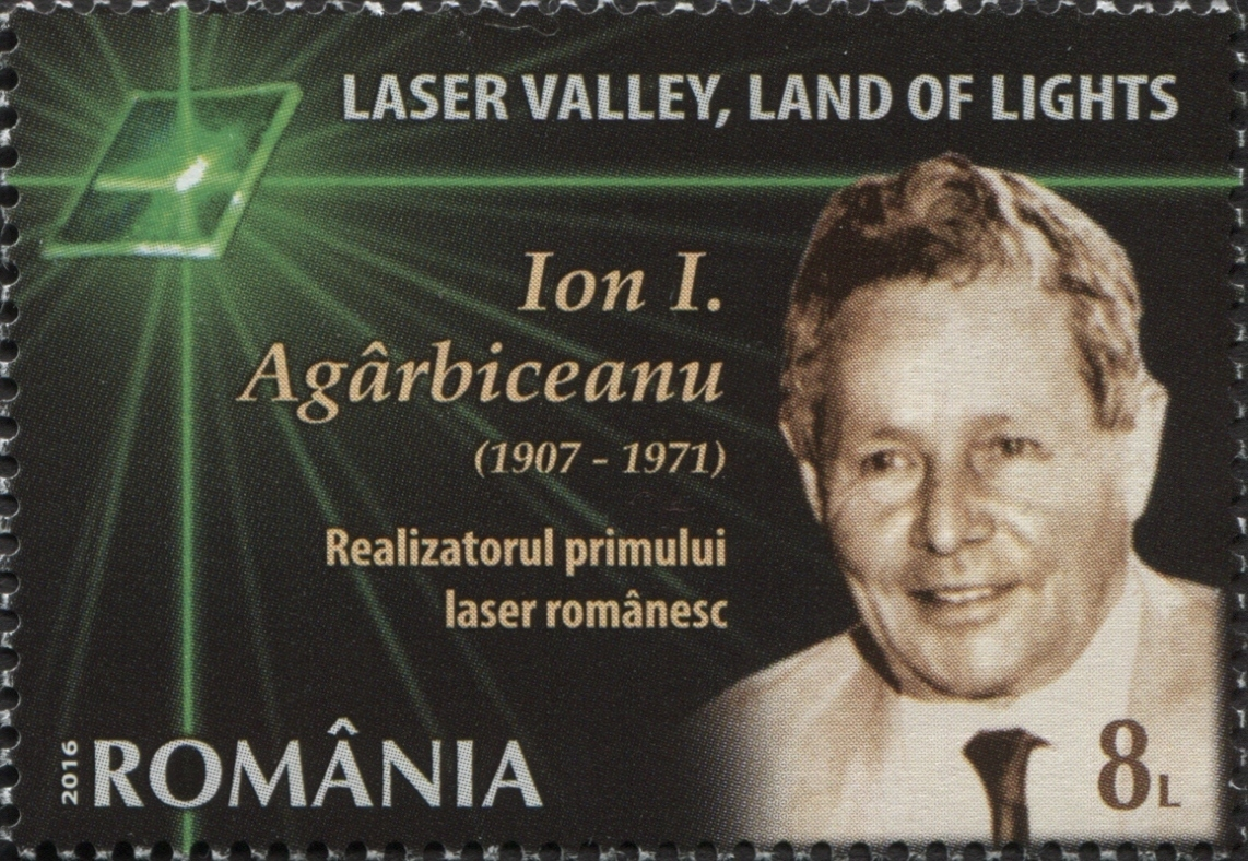 Beyond the Frontiers of knowledge - Laser Valley, Land of Lights - Ion I. Agârbiceanu , Romanian physicist